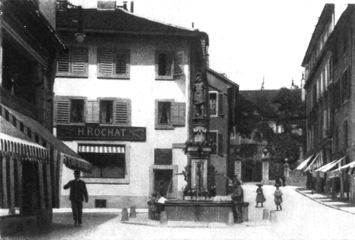 Dostoyevsky's family house in Vevey